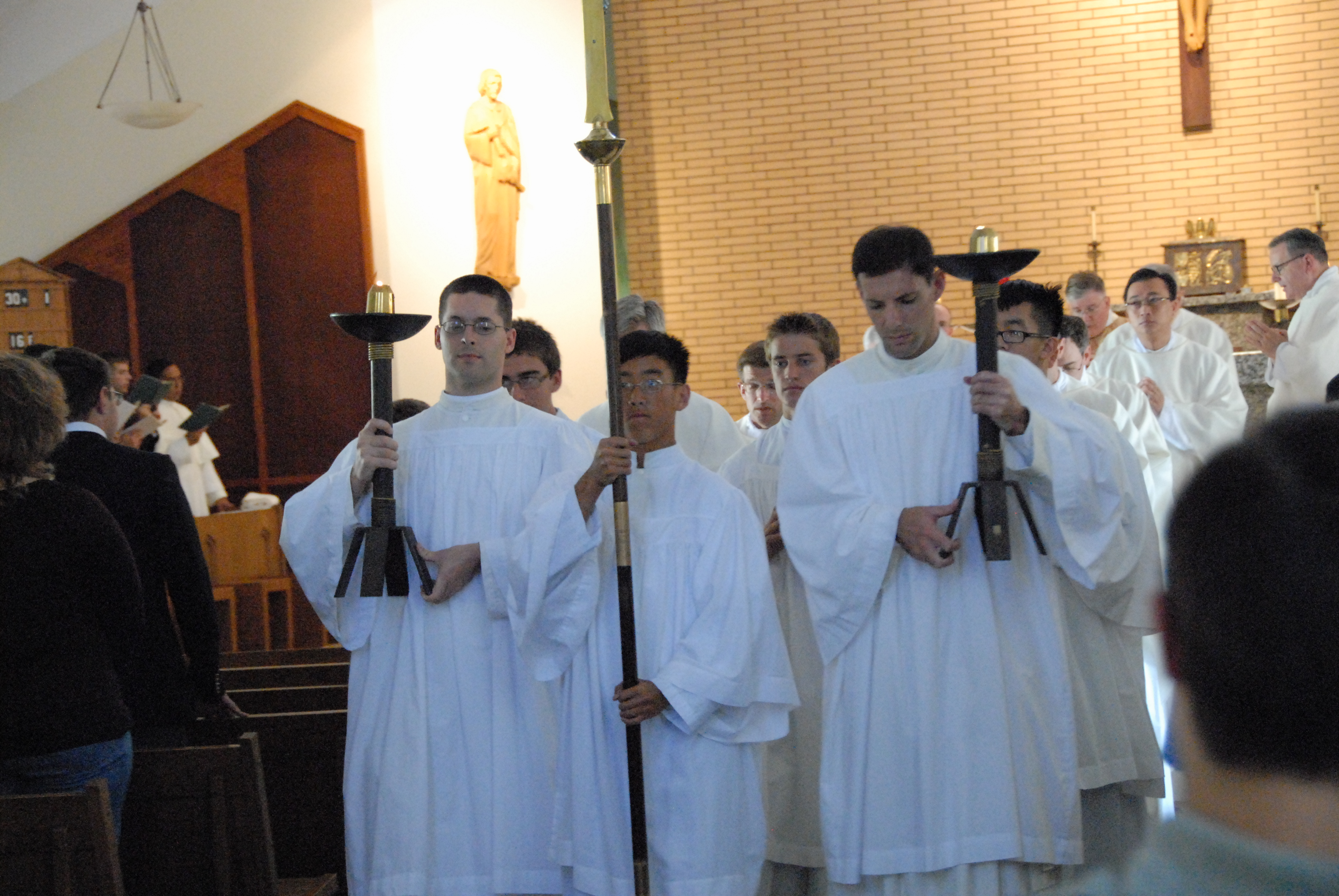 Liturgy at St. Michael's Abbey (Orange County, California)